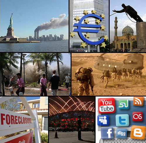 A montage of notable events in the 2000s.